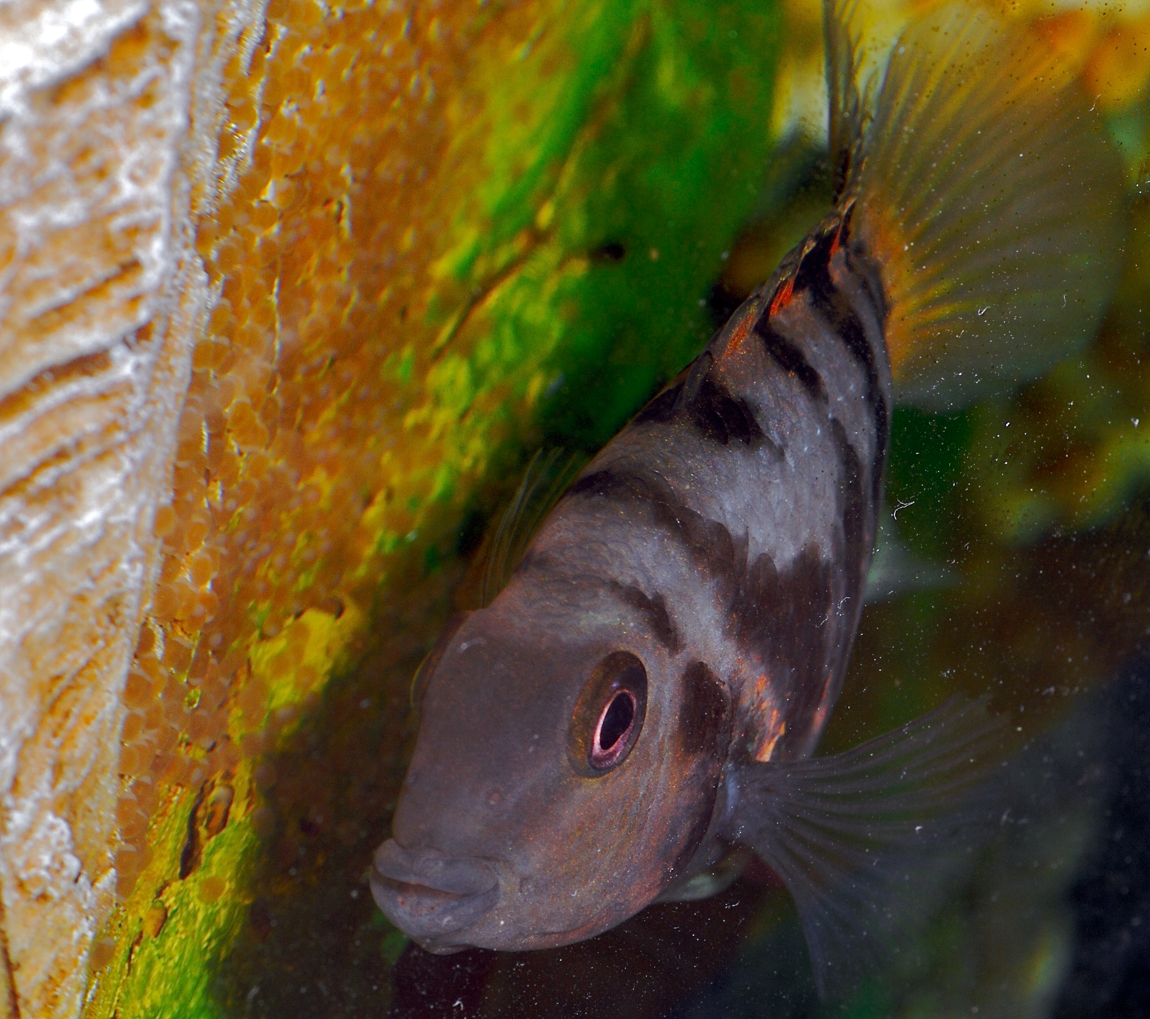 Female Convict Cichlid with Eggs